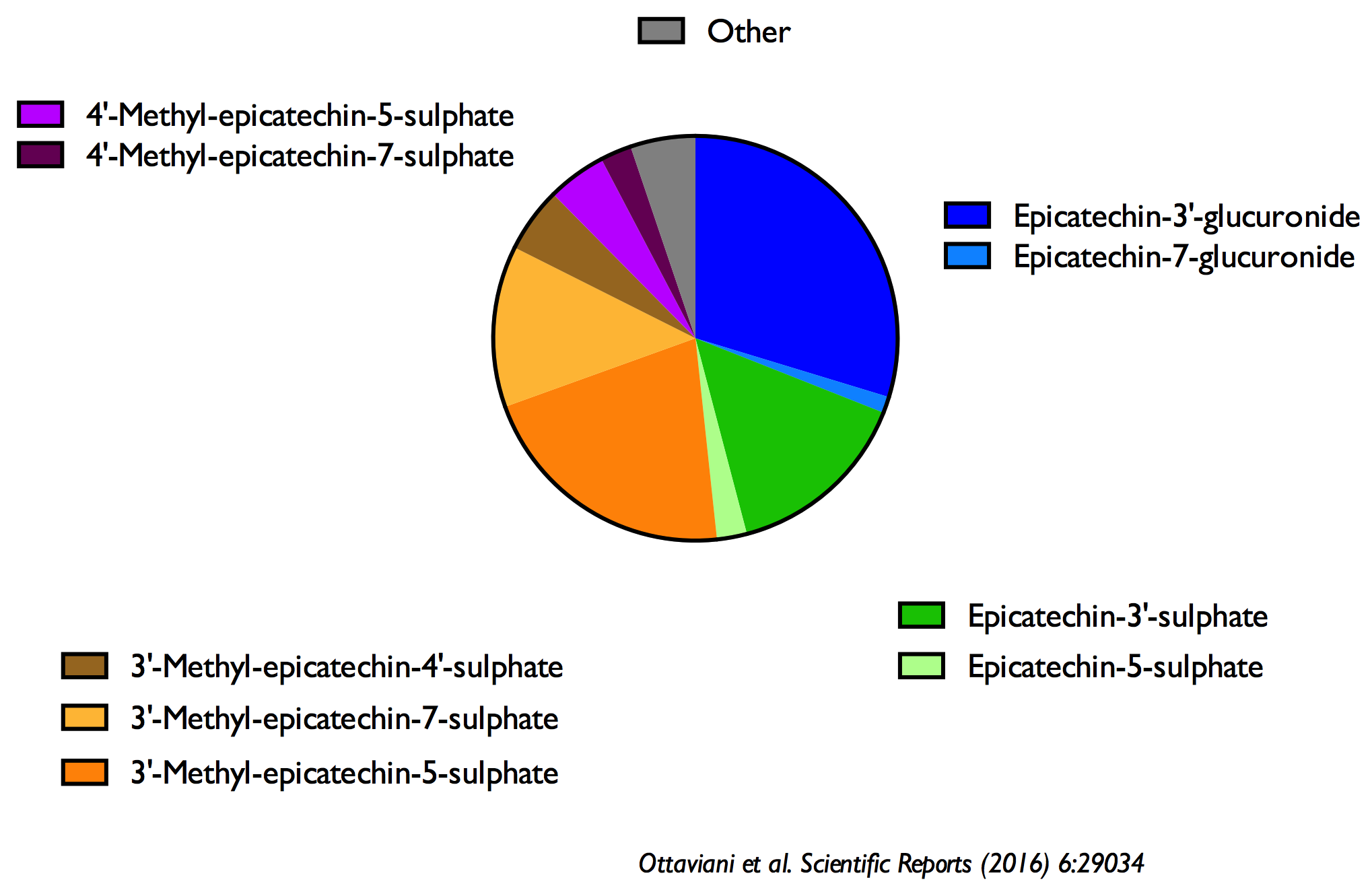 Human metabolites of (-)-epicatechin, based on Ottaviani et al., Scientific Reports 6:29034 (2016)